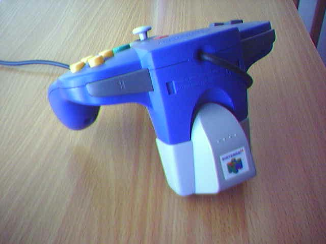 Nintendo 64 Rumble Pak. Photographed by User:Vague Rant.